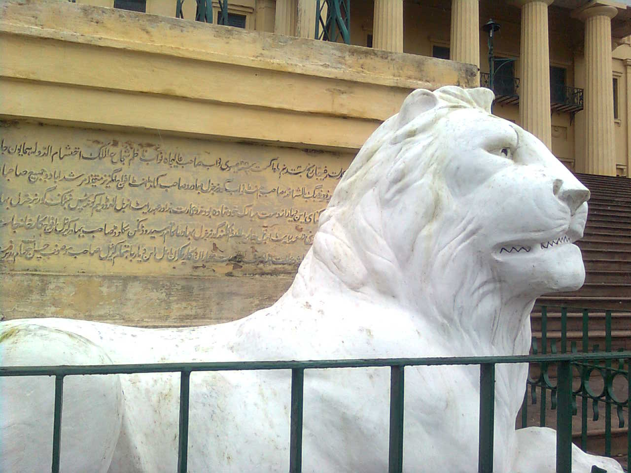 The statue at Hazarduari.